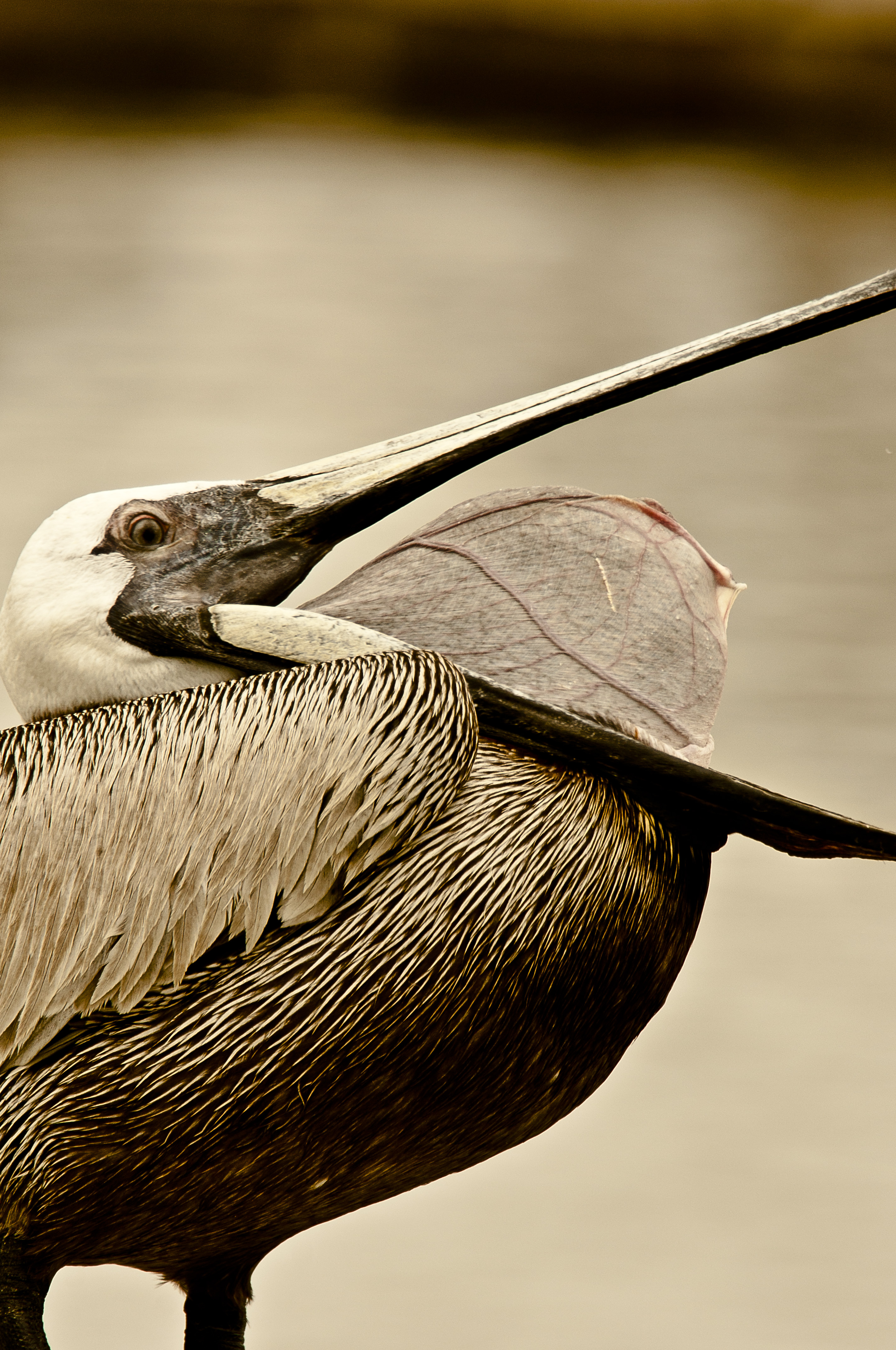 Brown Pelican in Florida